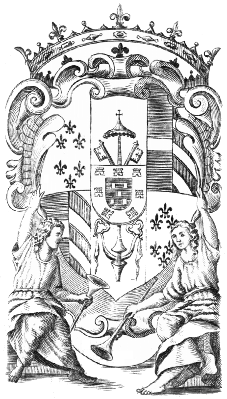 Andrea Adolfati - Didone abbandonata - titlepage of the libretto - Venice 1747